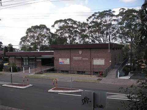 Greystanes Community Centre and Library